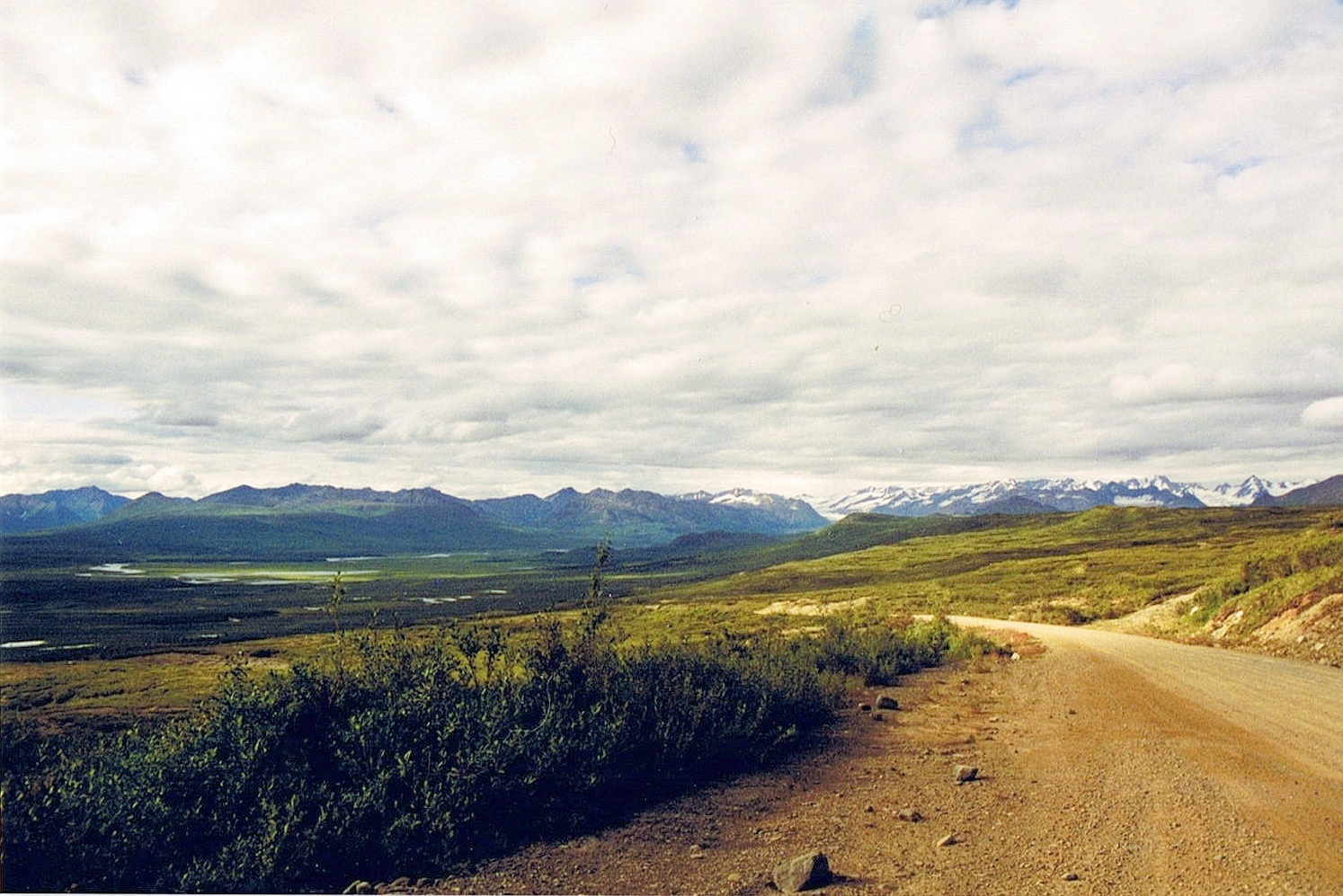 Denali Highway scanned image